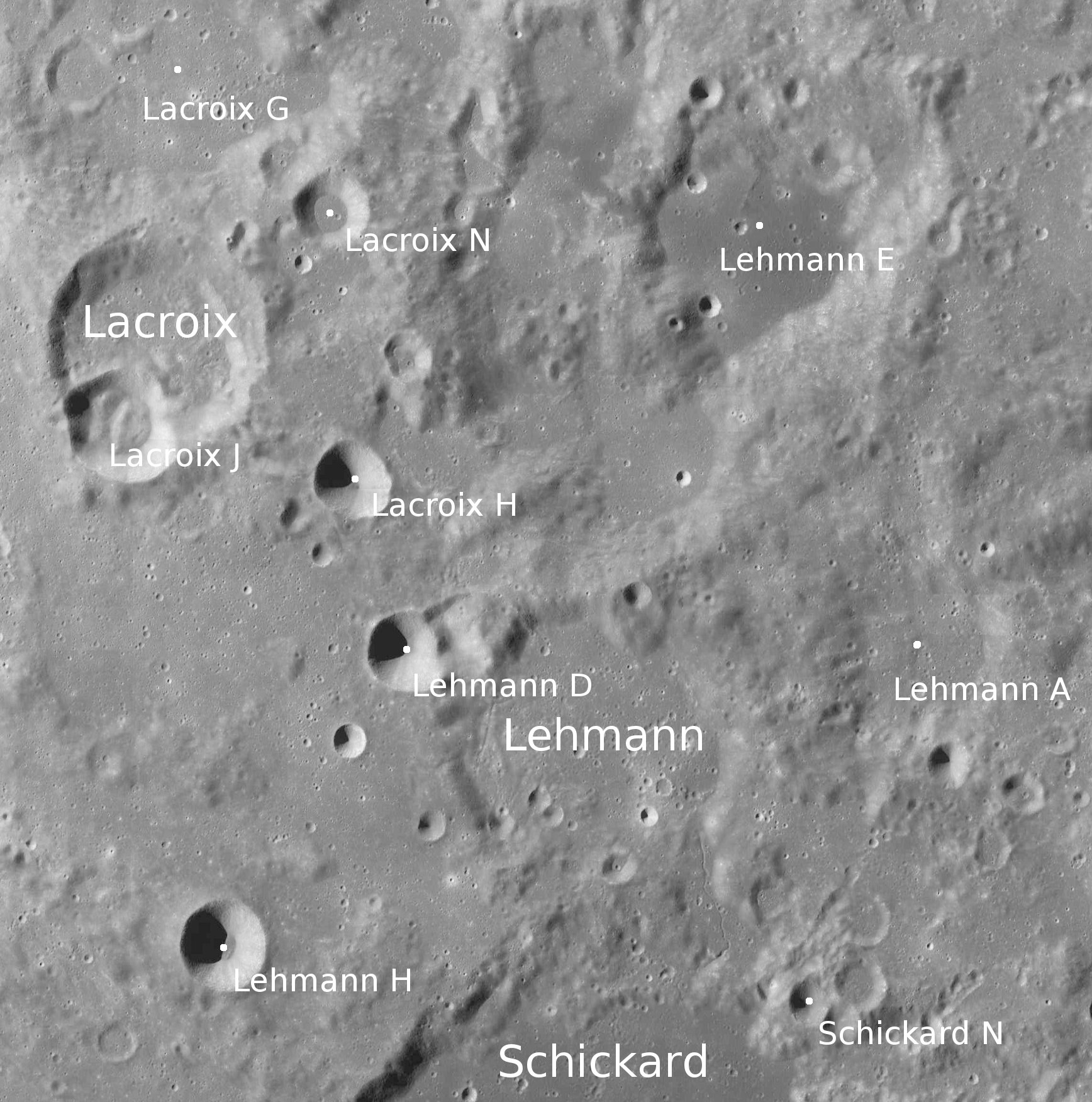 Craters Lacroix and Lehmann (detail of LRO - WAC global moon mosaic; Mercator projection)